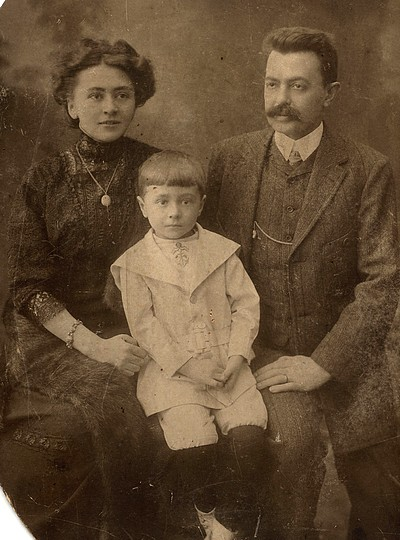 Stefan Zbigniew Różycki (1906-1988) with his parents (Roman and Regina born Rogozińska) in Konstantynówka (Konstantynivka) near Donetsk